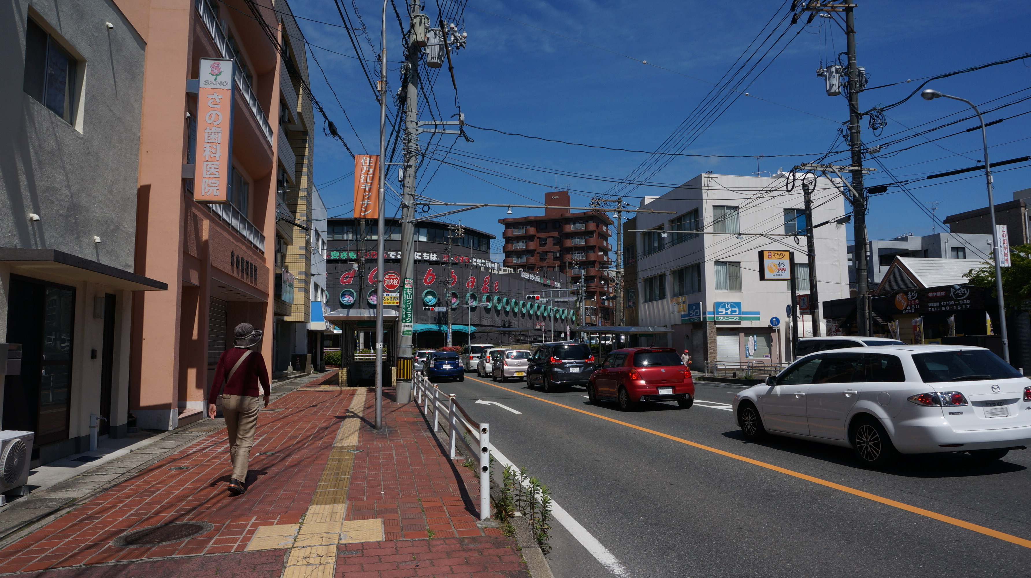 Yamanota crossing (May 2017)